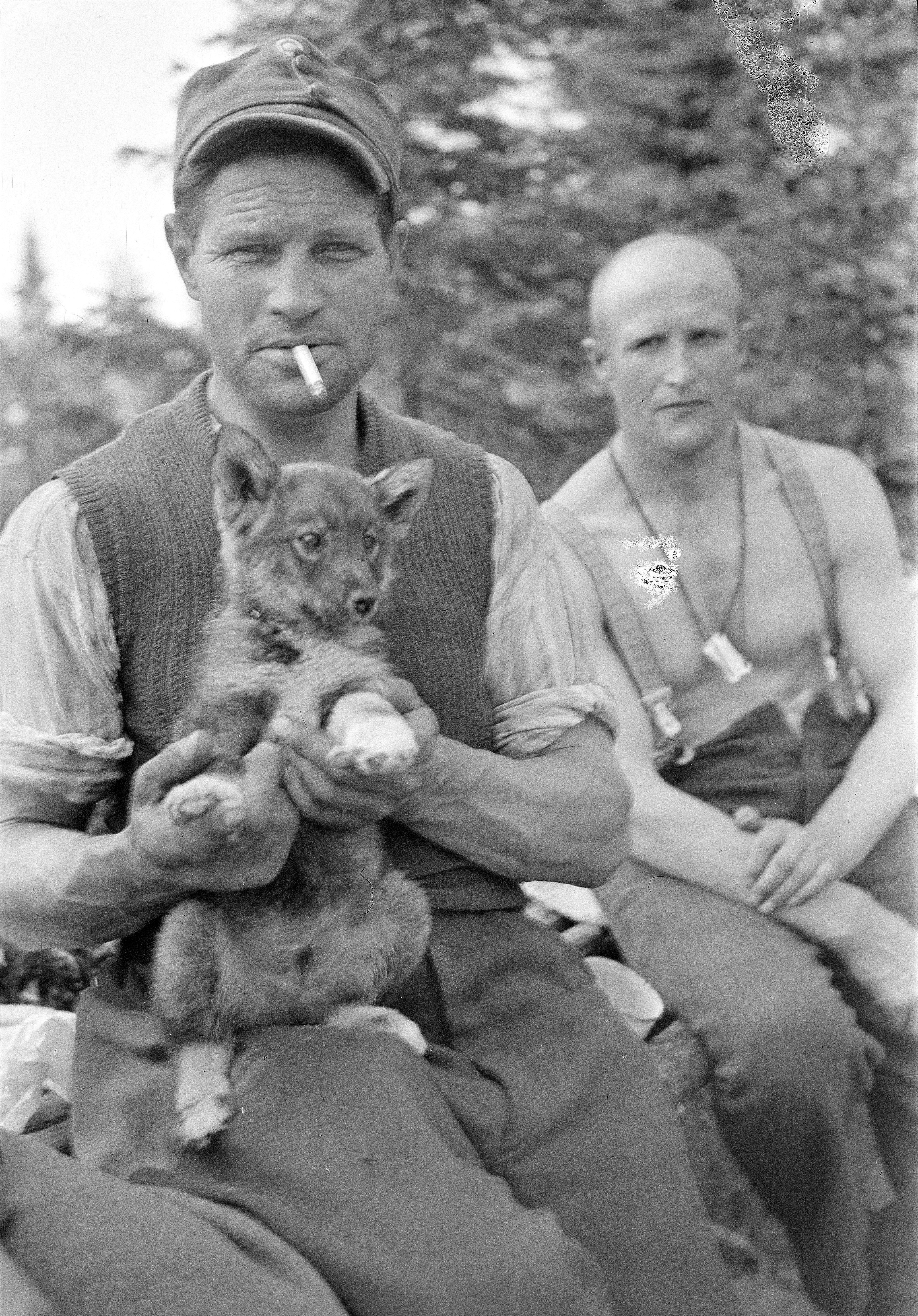 A Soviet prisoner of war spending time with a puppy on his lap during the Continuation War at Lupasalmi (Лубосалма).